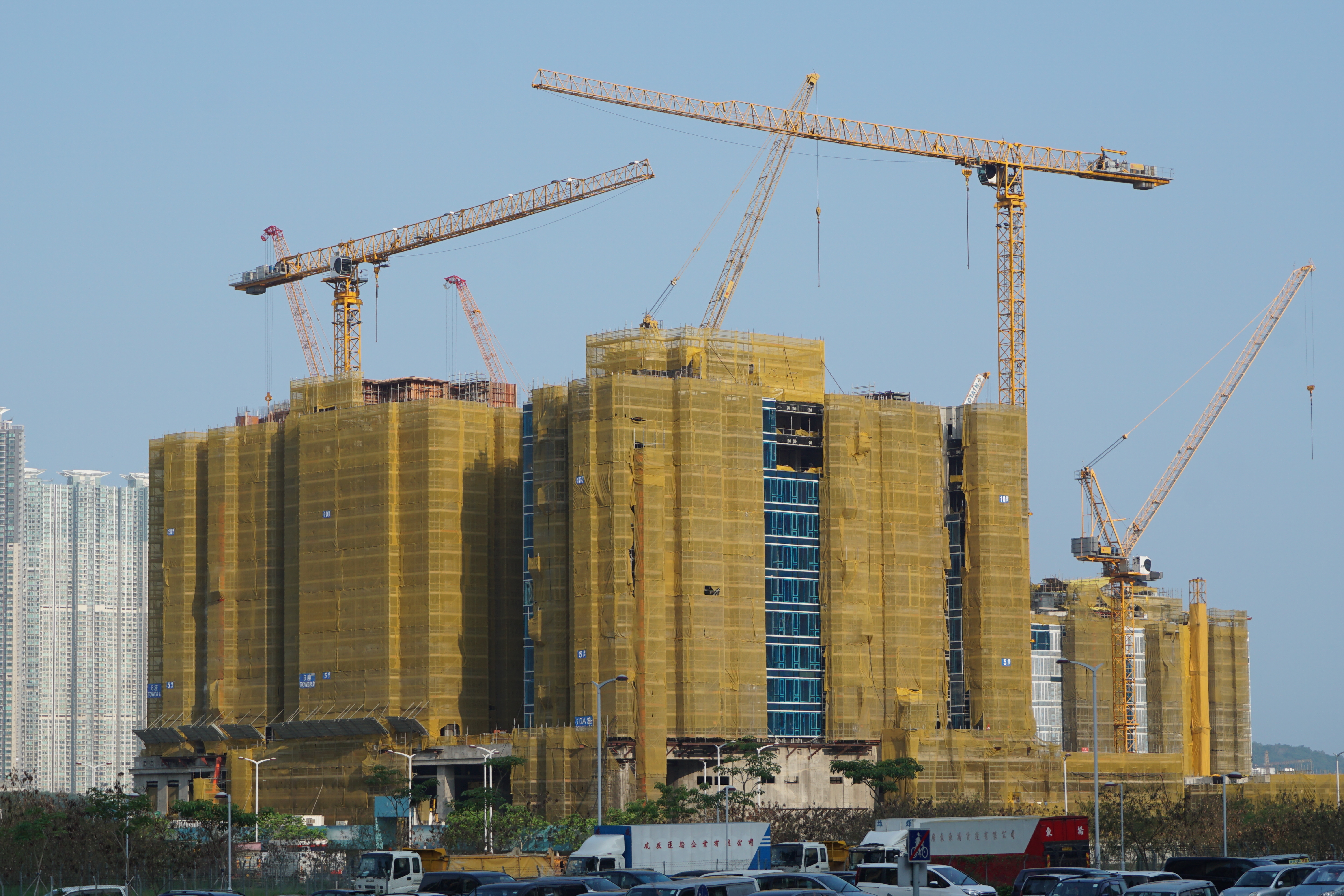 Capri in Tseung Kwan O, Hong Kong.